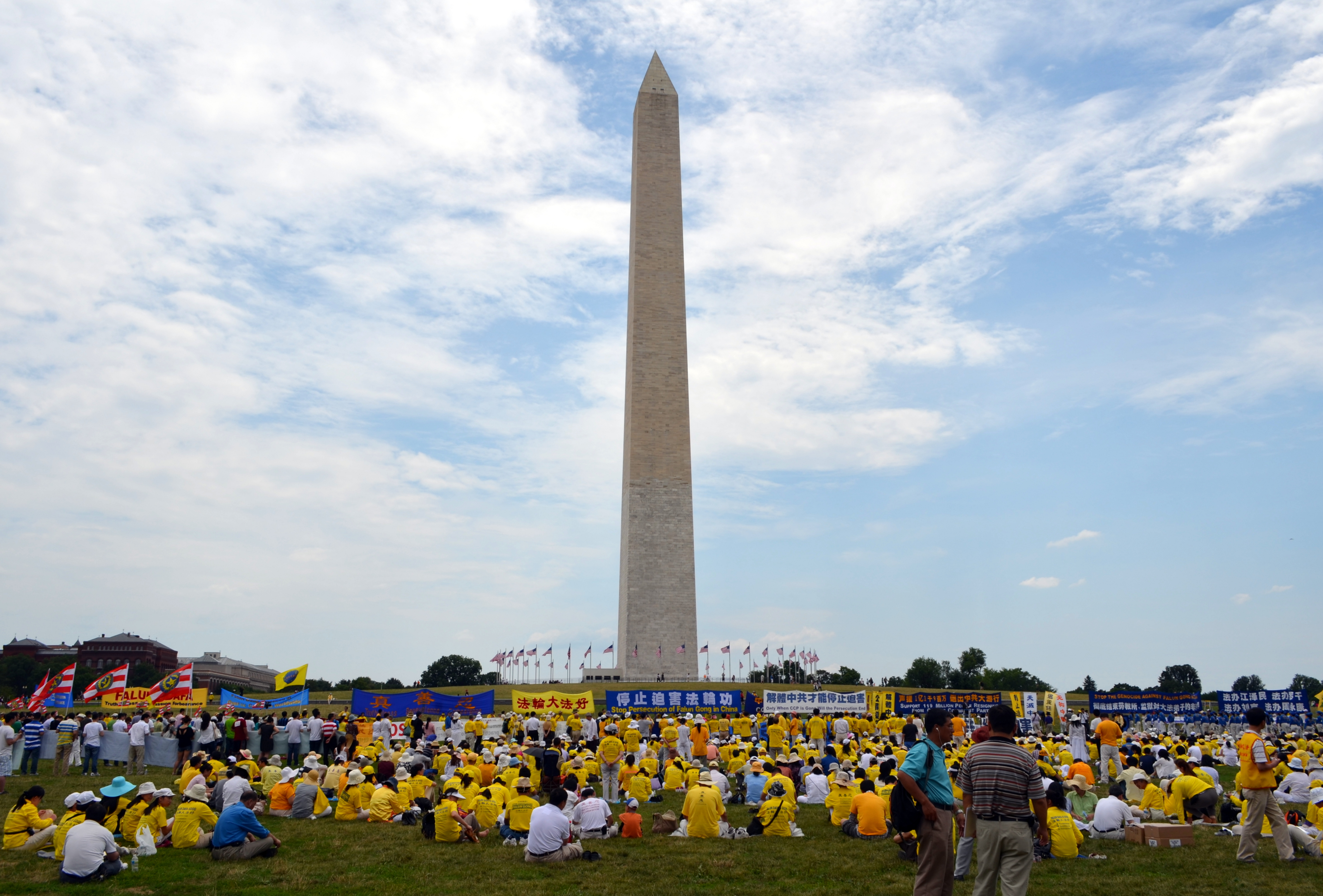 Falun Gong protesters in front of Washington Monument, Washington DC.